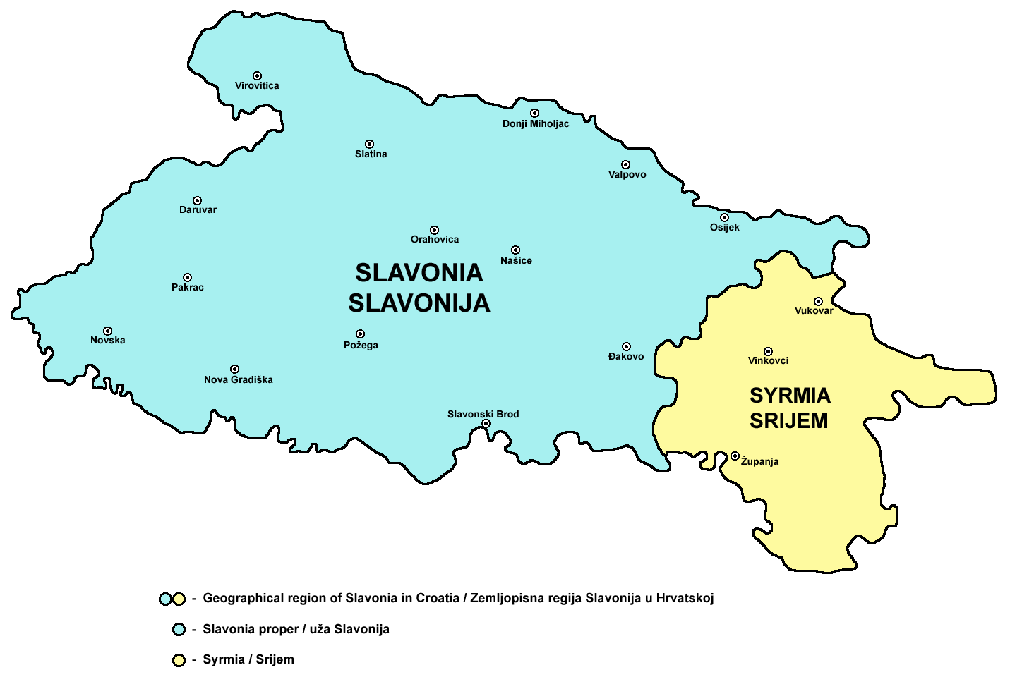 Geographical region of Slavonia in Croatia. Region is represented in its wider modern meaning, including Slavonia proper and western (Croatian) part of the region of Syrmia (eastern part of the region of Syrmia that belong to Serbia is not seen as part of Slavonia, but as part of Vojvodina). Western border of Slavonia is represented in accordance with historical borders of two Slavonian counties of the former Kingdom of Croatia-Slavonia.Croatian: Zemljopisna regija Slavonija u Hrvatskoj. Regija je prikazana u svom širem modernom značenju, uključujući užu Slavoniju i zapadni (hrvatski) dio Srijema (istočni dio Srijema koji pripada Srbiji ne smatra se dijelom Slavonije, već dijelom Vojvodine). Zapadna granica Slavonije je prikazana suglasno sa povijesnim granicama dvije slavonske županije negdašnje Hrvatsko-Slavonske Kraljevine.